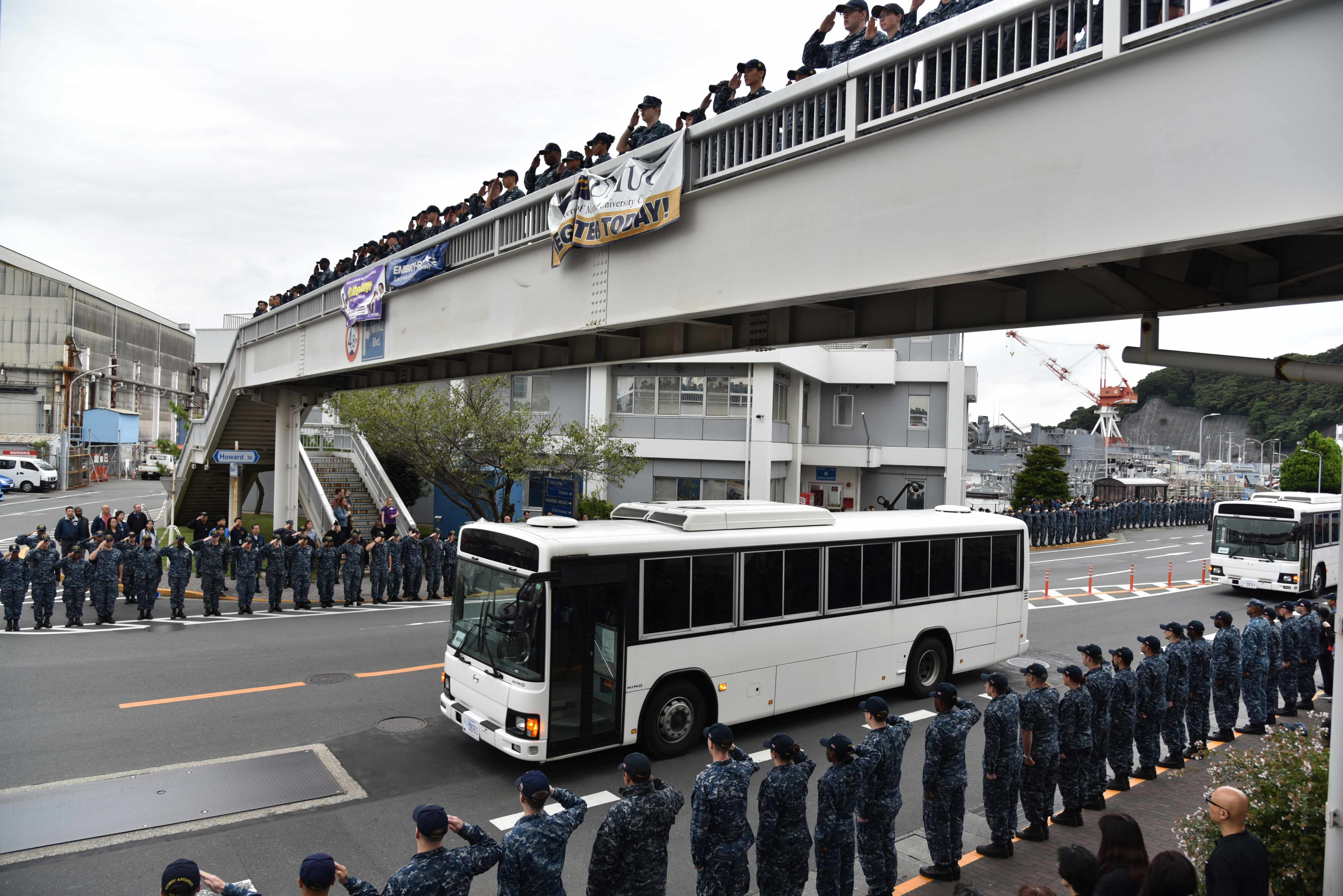 171004-N-JT445-119 YOKOSUKA, Japan (Oct. 4, 2017) Fleet Activities (FLEACT) Yokosuka’s community participate in a line of honor to show support for the families and shipmates of the 10 Sailors assigned to the USS John S. McCain (DDG 56) who perished following the destroyer's Aug. 21 collision at sea. The families and shipmates were escorted through the lined streets of FLEACT Yokosuka to the USS John S. McCain Memorial Service at the Fleet Theater. (U.S. Navy photo by Ryo Isobe/Released)